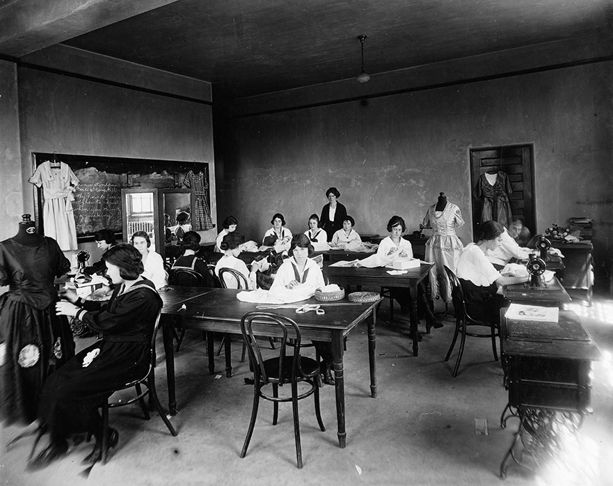 Sewing Laboratory at Grubbs Vocational College; young women at sewing machines and tables.